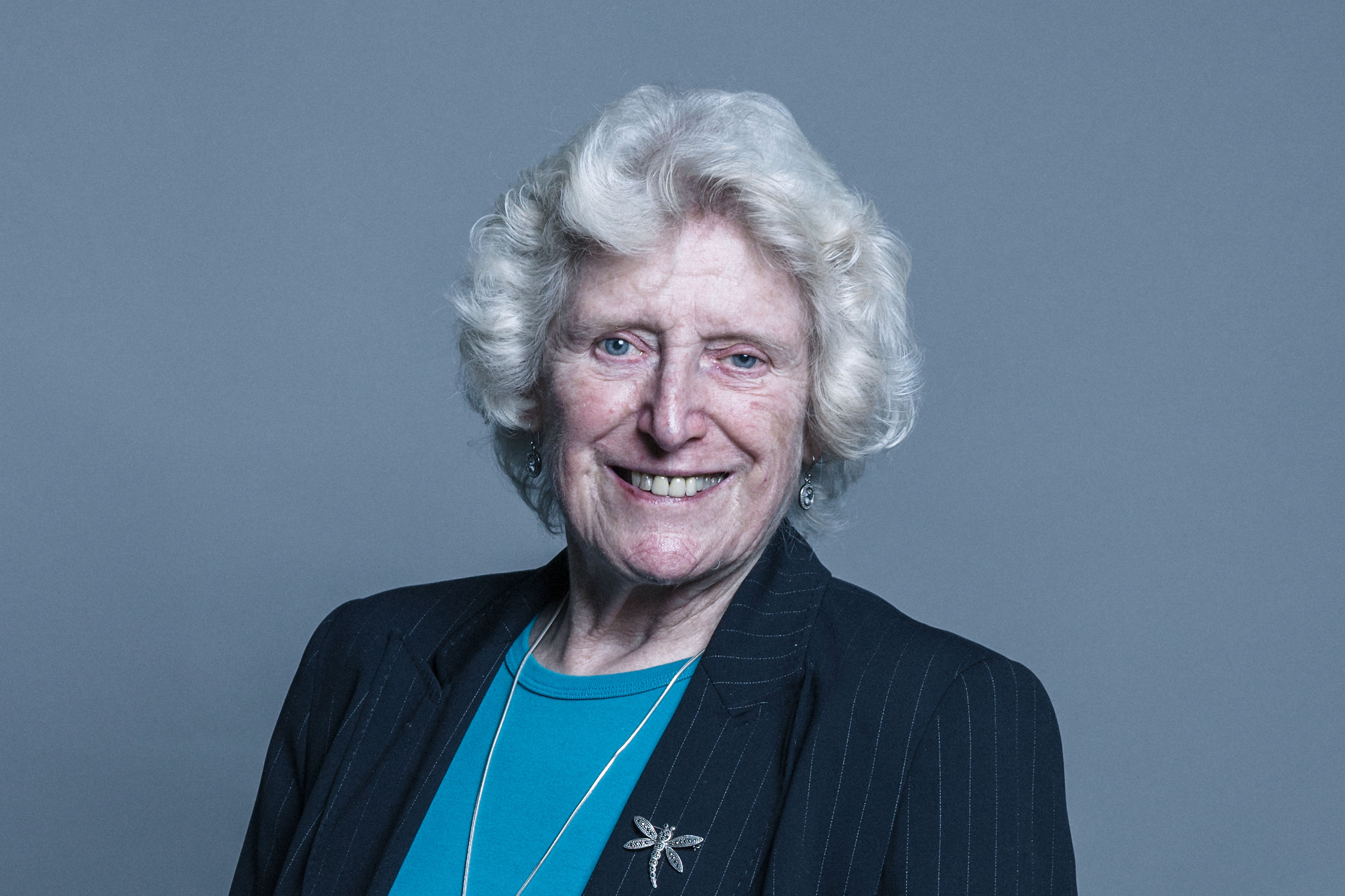 Official portrait of Baroness Butler-Sloss